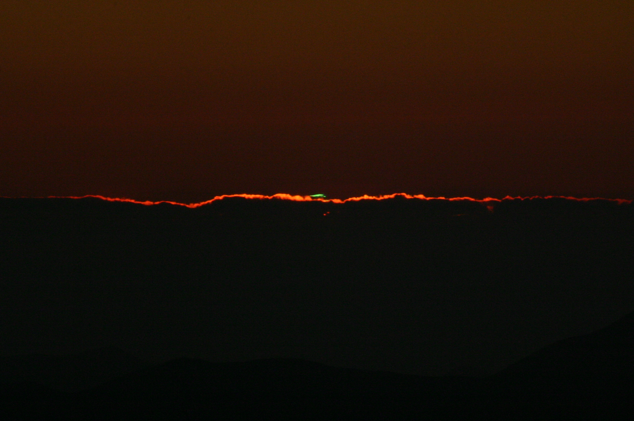 Green flash, seen from La Silla Observatory (ESO) on October 15th, 2005. The image has not been modified in any way.